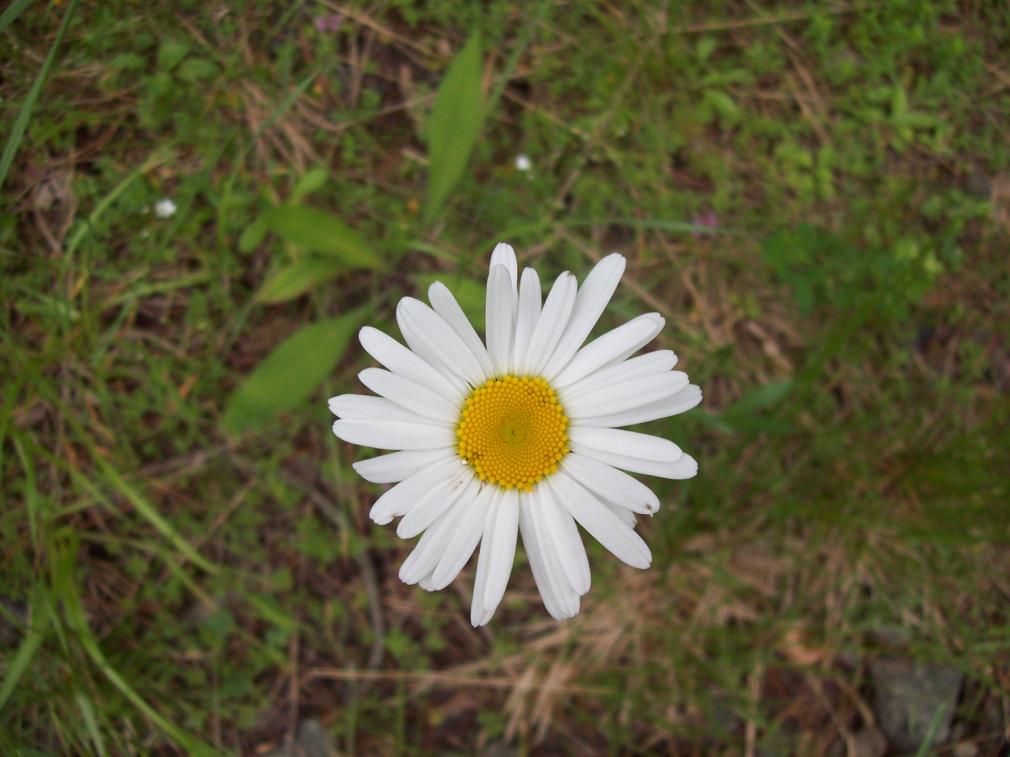 Bellis Perennis is a flower with mostly white petals. In English this flower is called Daisy. This is picture from Zlatibor mountain in Serbia.